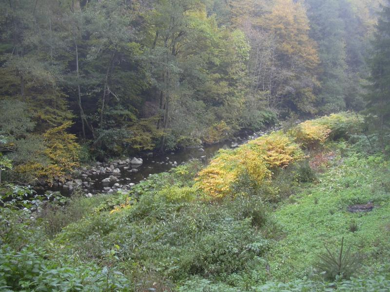 The Alb vallez near Tiefenstein in the Black Forest, Germany